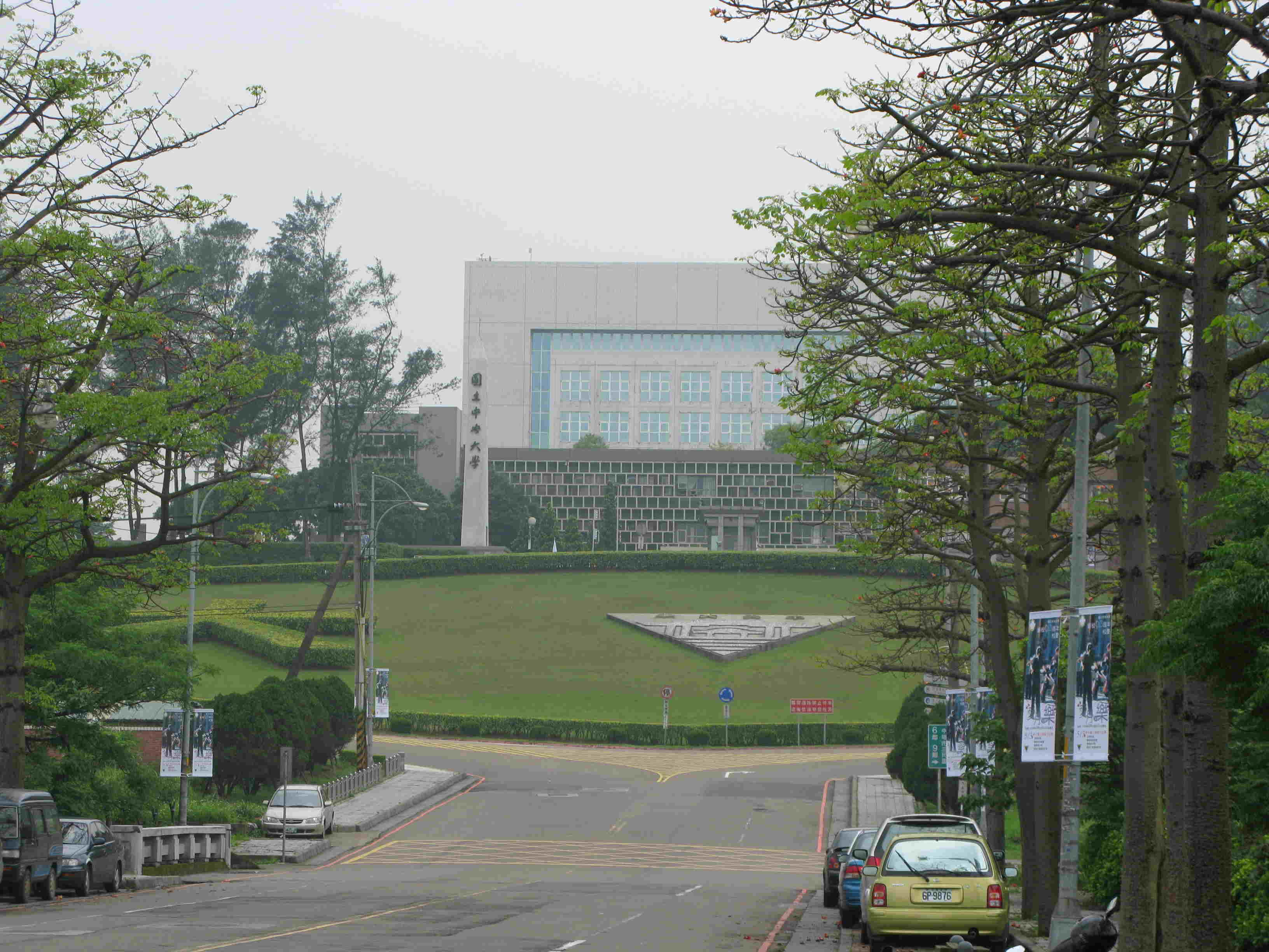 Central University of Jhongli, Taiwan.